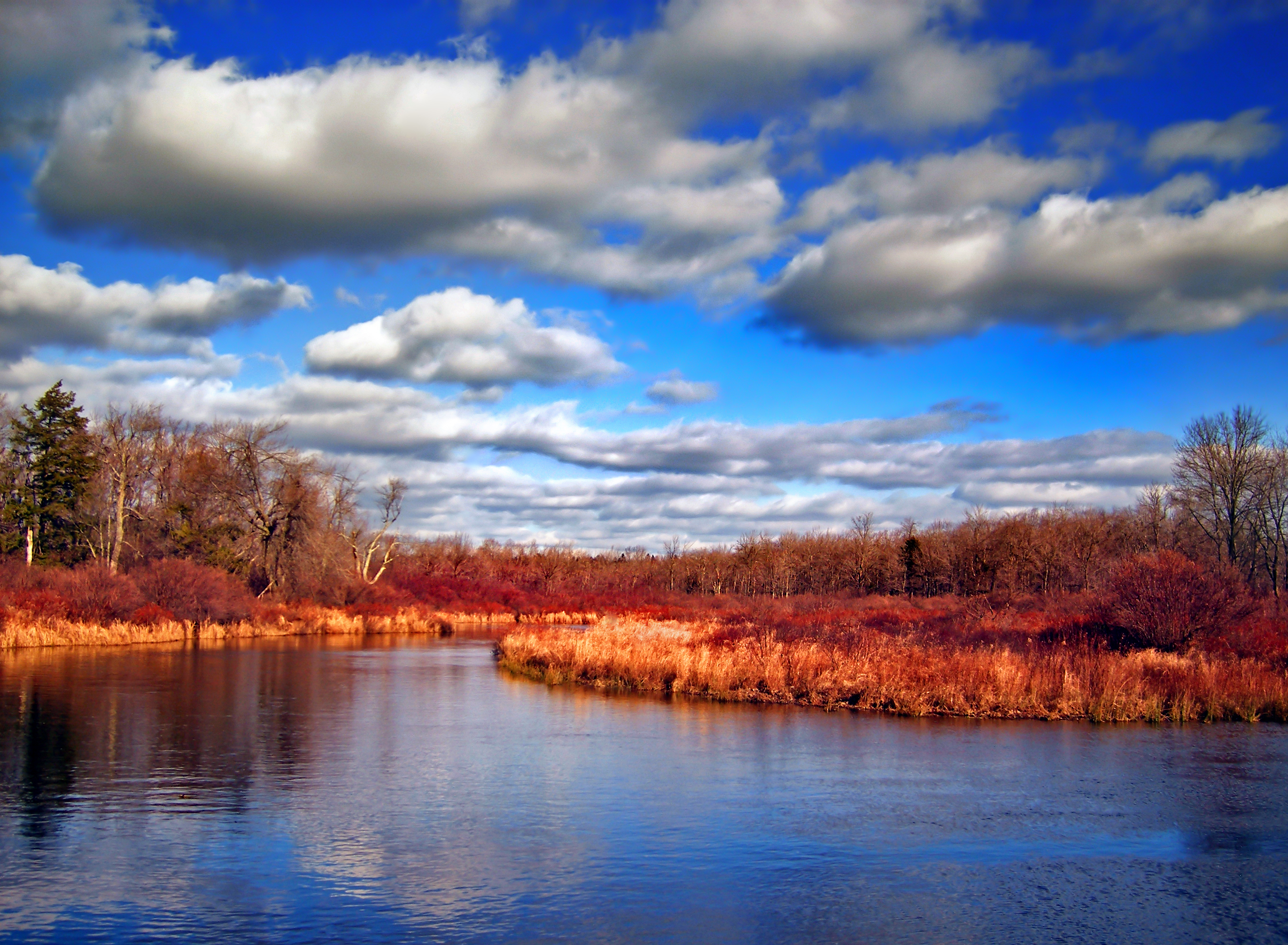 Mill Pond, Monroe County.